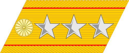 Generalissimo of Japan rank insignia. This rank was held by the Emperor.